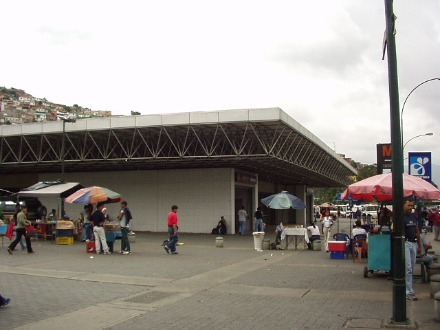 Antimano Station of the Caracas Metro. Caracas, Venezuela.